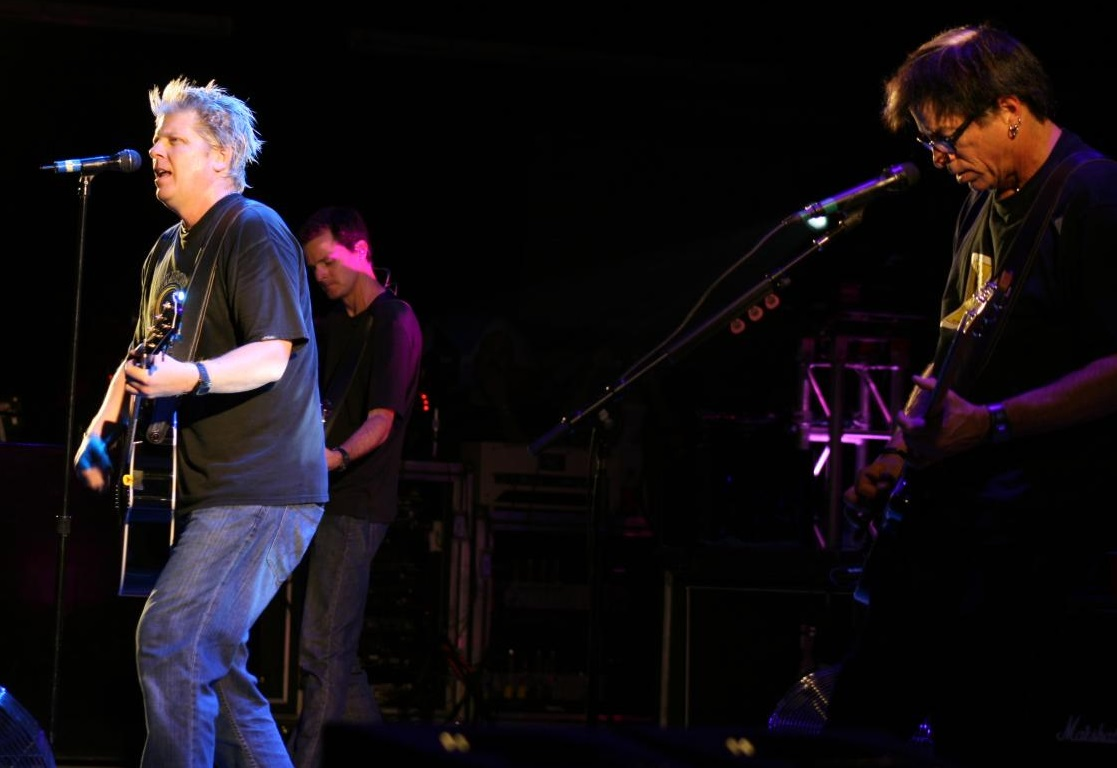 The Offspring performing at the St. Augustine Amphitheatre, St. Augustine, FL, USA on the 17th of July 2009.